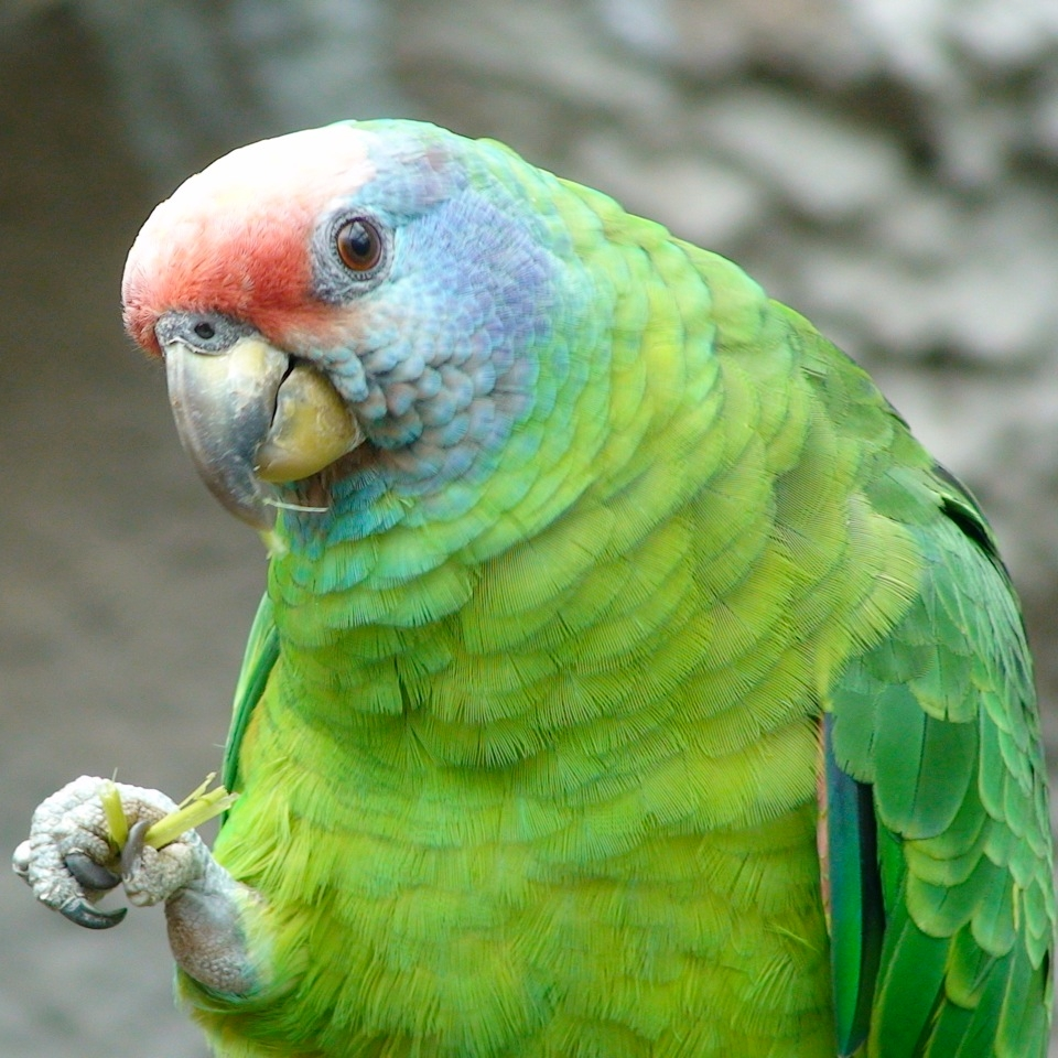 A Red-tailed Amazon which is grasping something in its right foot, probably to chew or eat it.